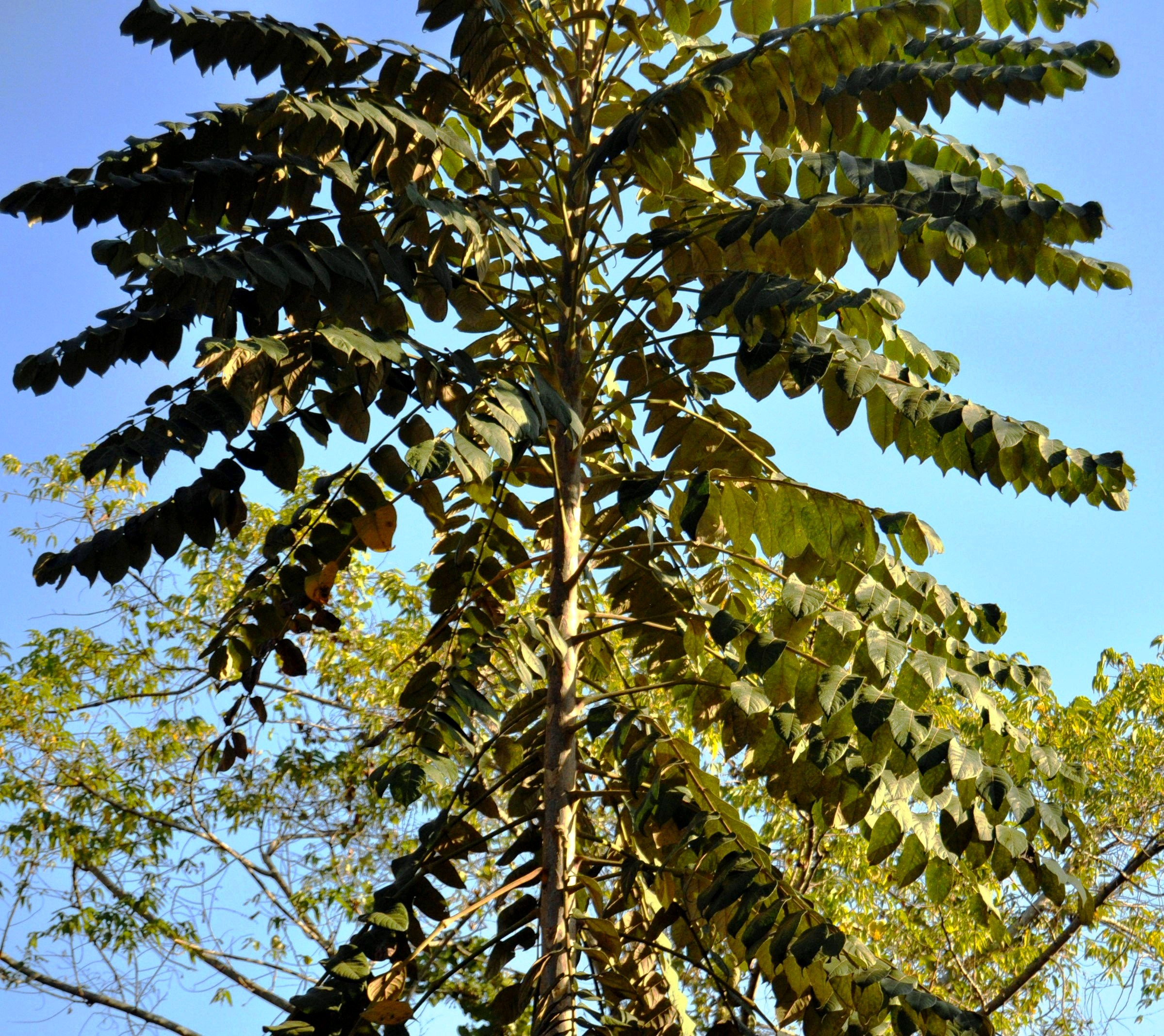 Parasol tree in the Lowveld National Botanical Garden, Nelspruit, South Africa